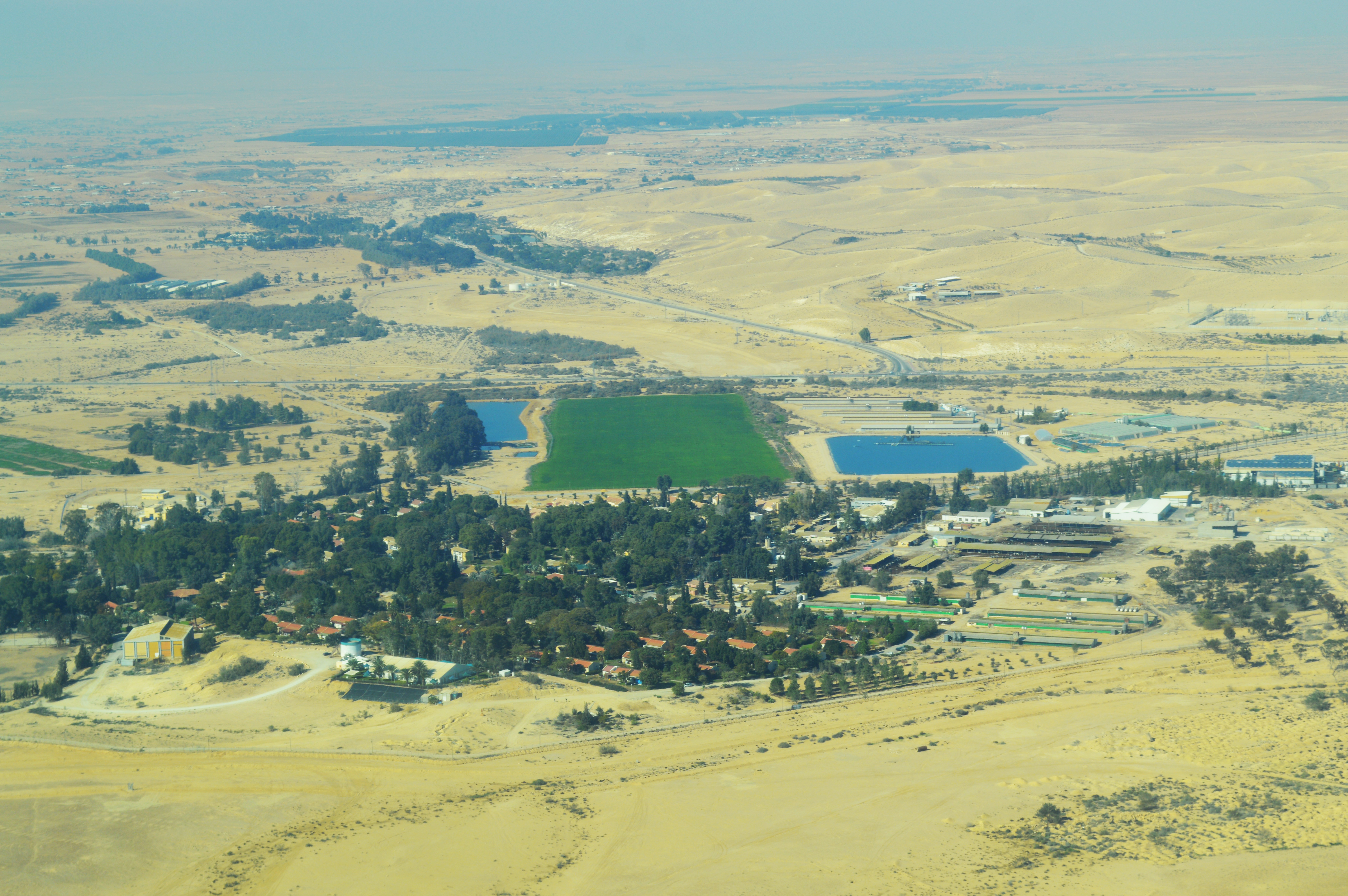 Mashabei Sadeh Aerial View